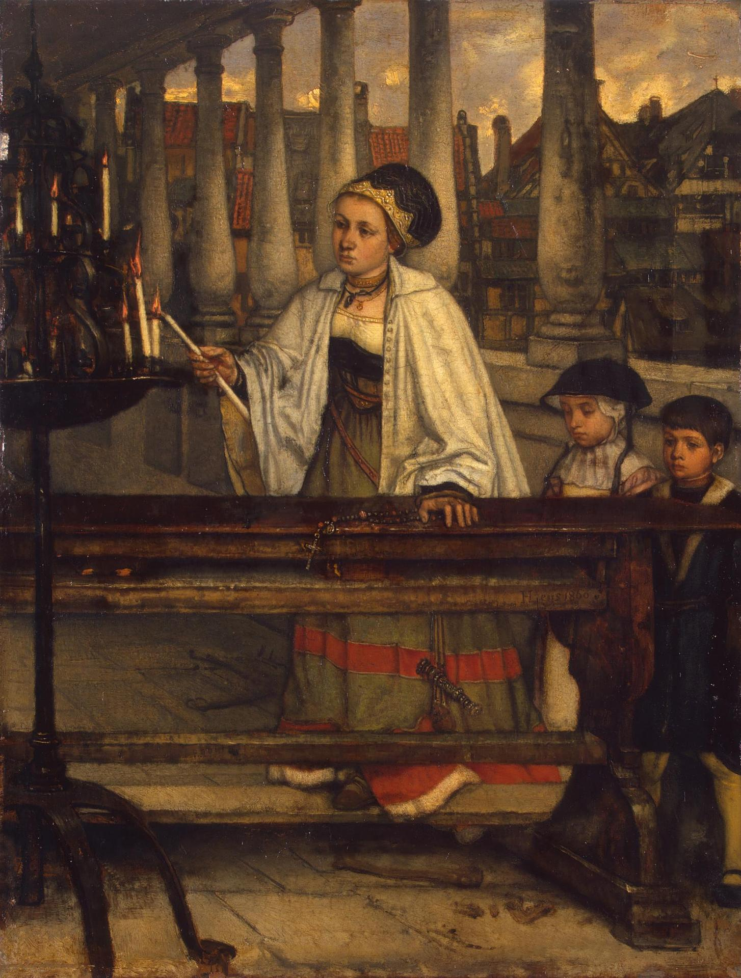 Vow. A Woman Lighting Candles